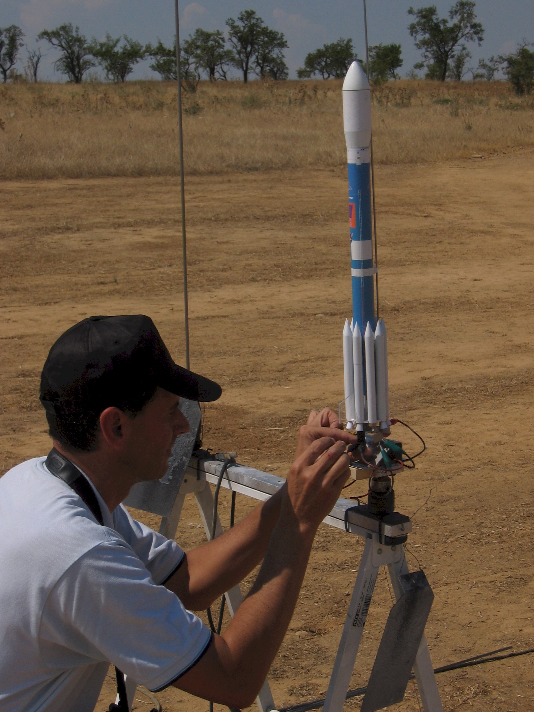 A model rocketeer with his Delta II scale model rocket, ready for launch.